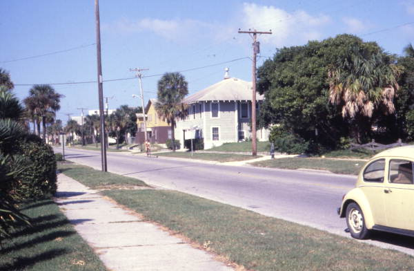 Looking north along 1st St. at Neptune Beach. This photo has been placed in the public domain by the author James Gaines.